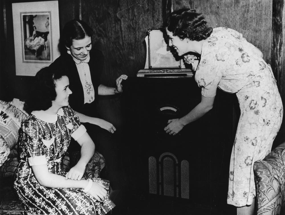 Group of friends gathered around a radio in Brisbane, ca. 1942. Three young women listening to the radio in Brisbane, ca. 1942. The wireless was the main source of entertainment for many wartime families. There were large audiences for the popular programmes of the time such as 'Dad and Dave', 'Melody Makers' and 'Forever Young'. (Description supplied with photograph).